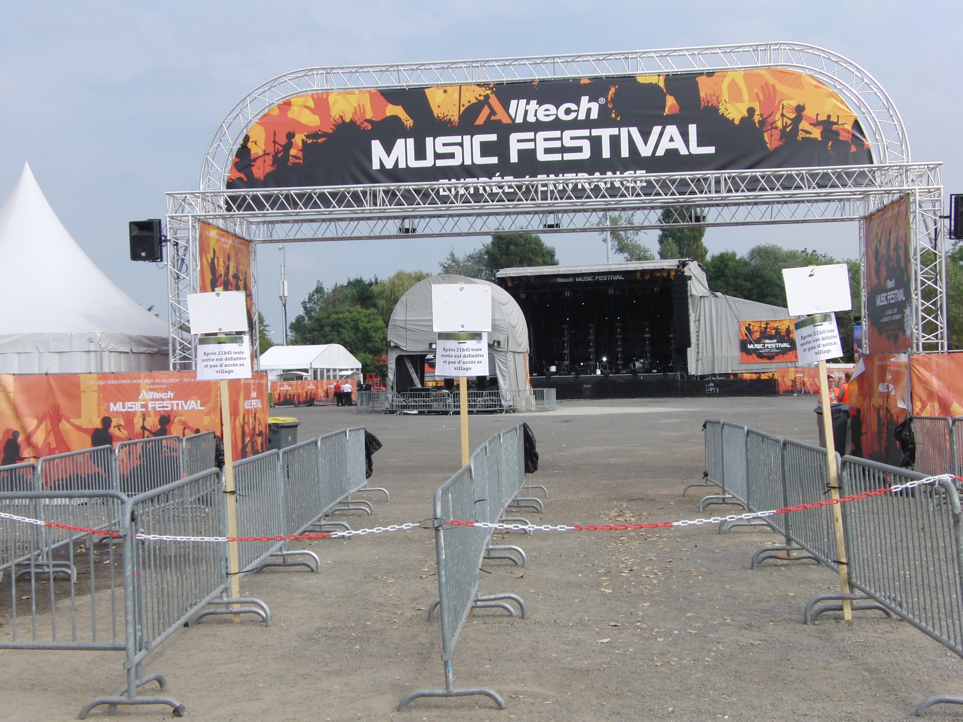 2014 FEI World Equestrian Games - Alltech Music Festival